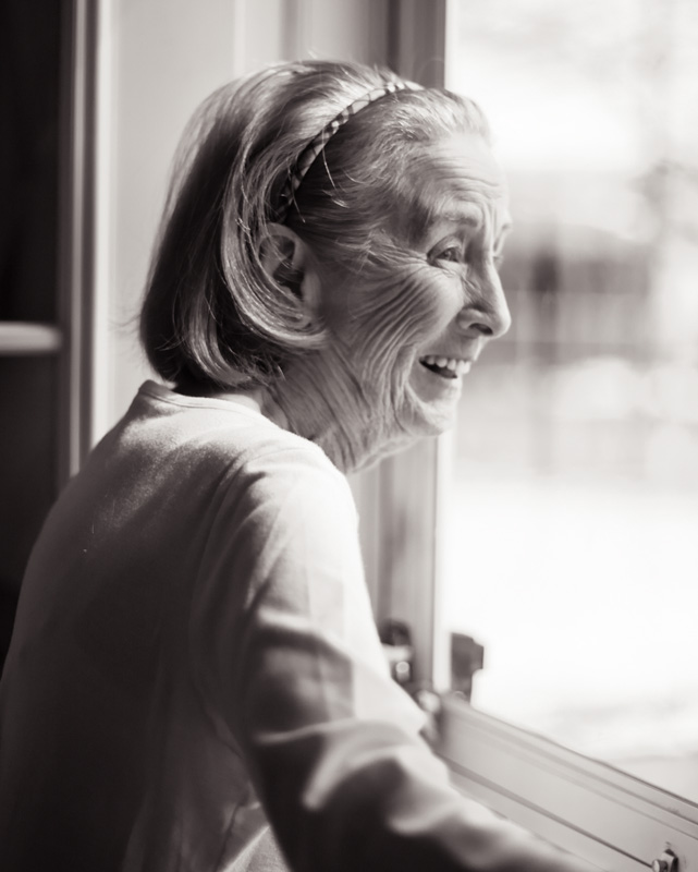 My mom looking out the back door. I have always loved when my mom would watch us (or the grand kids and great grand kids) play in the yard! She has been living in this house since 1951! I love my mom for many reasons, and one of them is always being excited about her family!